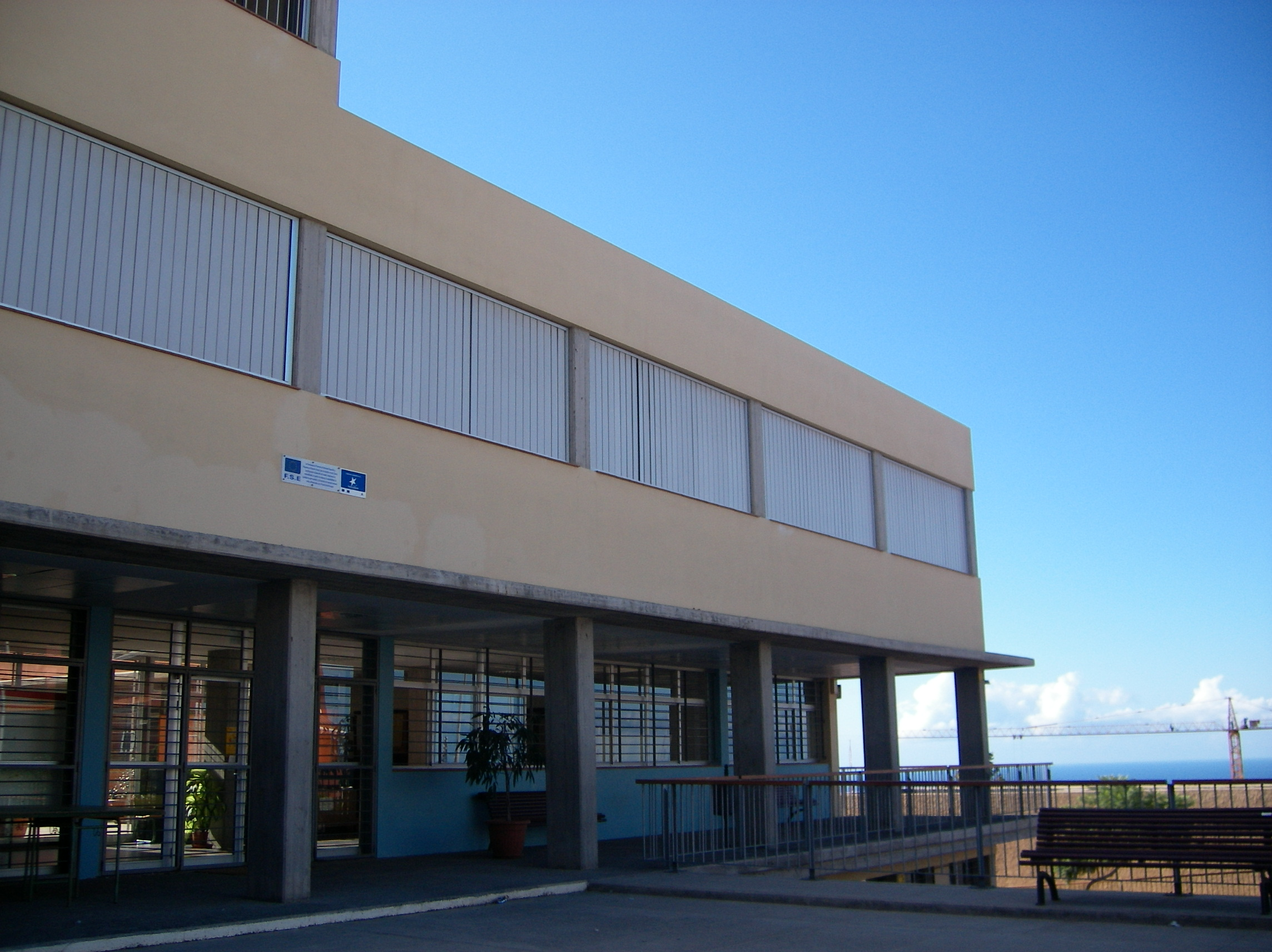 Tejina's Highschool